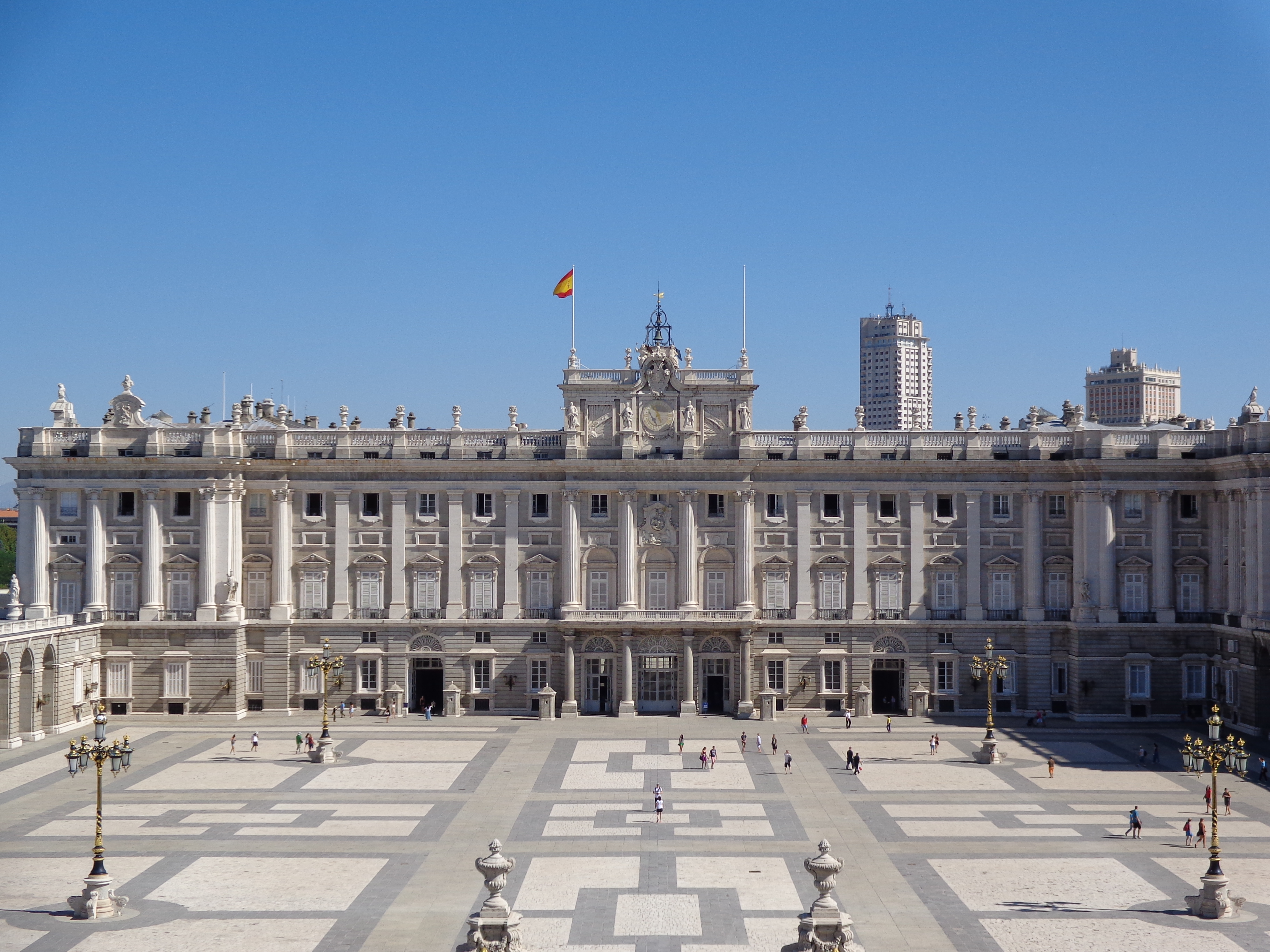 Royal Palace of Madrid